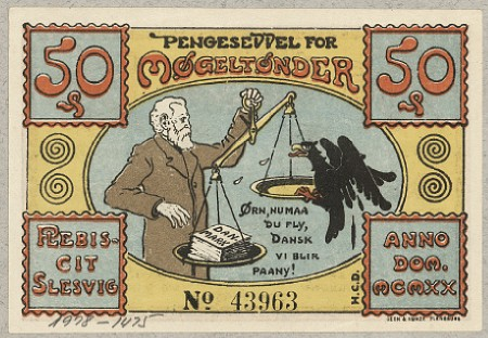 Emergency money from Møgeltønder. Text in Danish but issued in German denomination (50 Pfennig [Penning]). The other side of the same note carries text in both German and Danish and an illustration of the two Golden Horns of Gallehus. Local emergency notes in South Jutland [Zone I of the Schleswig Plebiscite areas] were replaced by standard Danish currency on 20 May 1920.[1] Reunification with Denmark took place in June 1920.